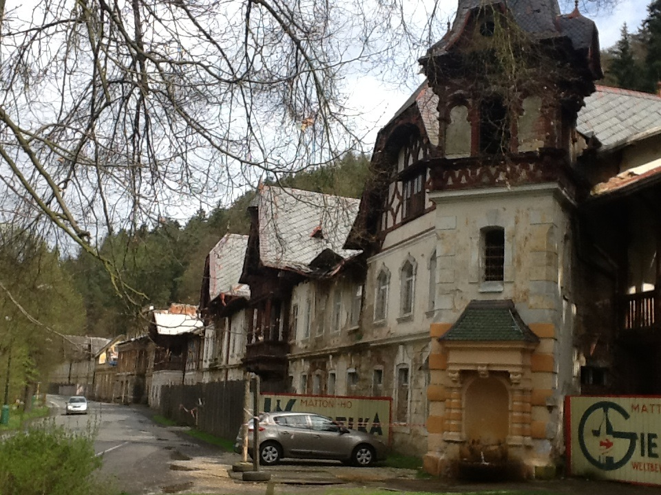 Lázně Kyselka 2014 8